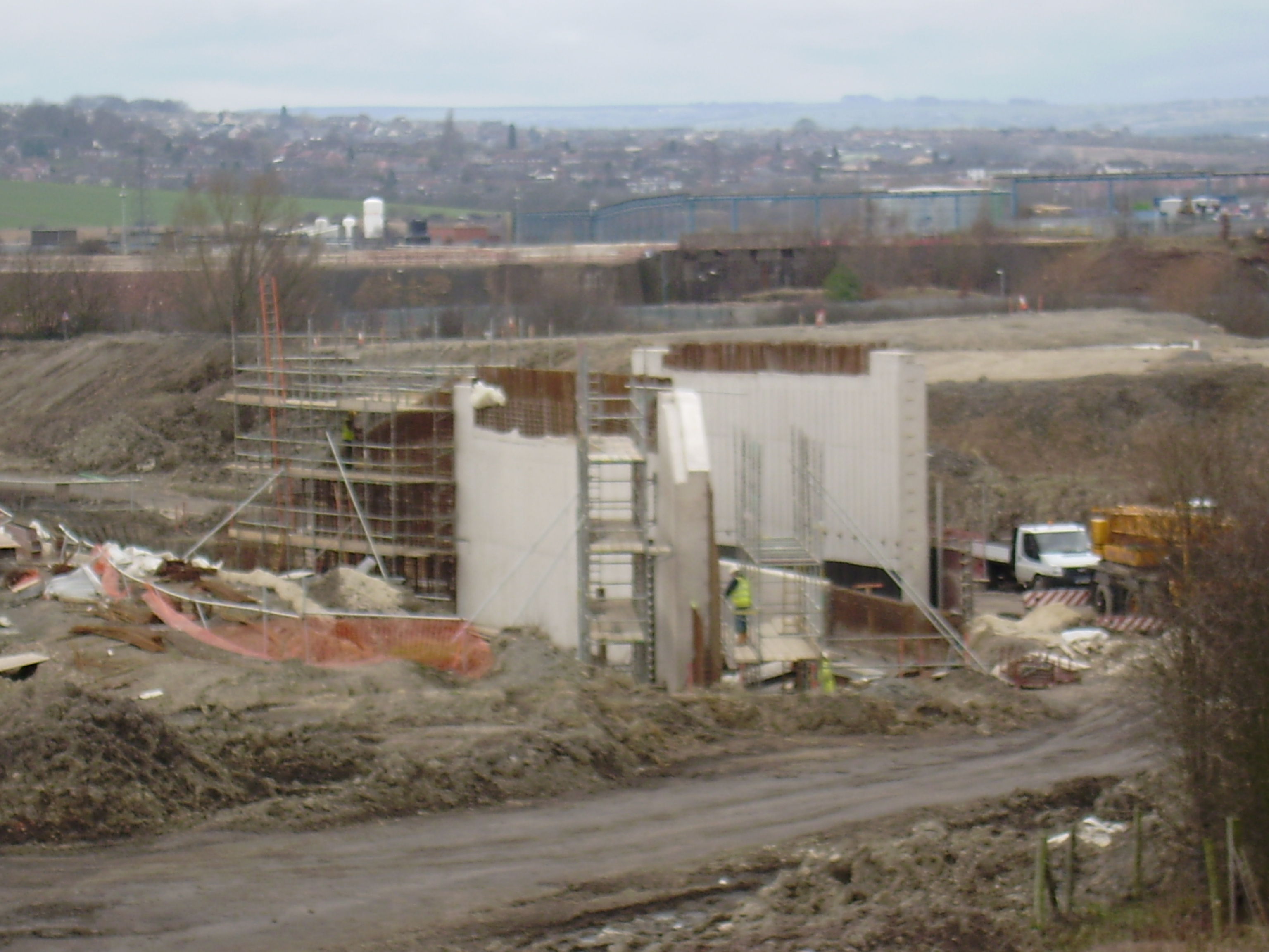 New bridge incorporating canal channel at Staveley on Chesterfield Canal. Bridge is part of Staveley bypass / Markham vale link road project.